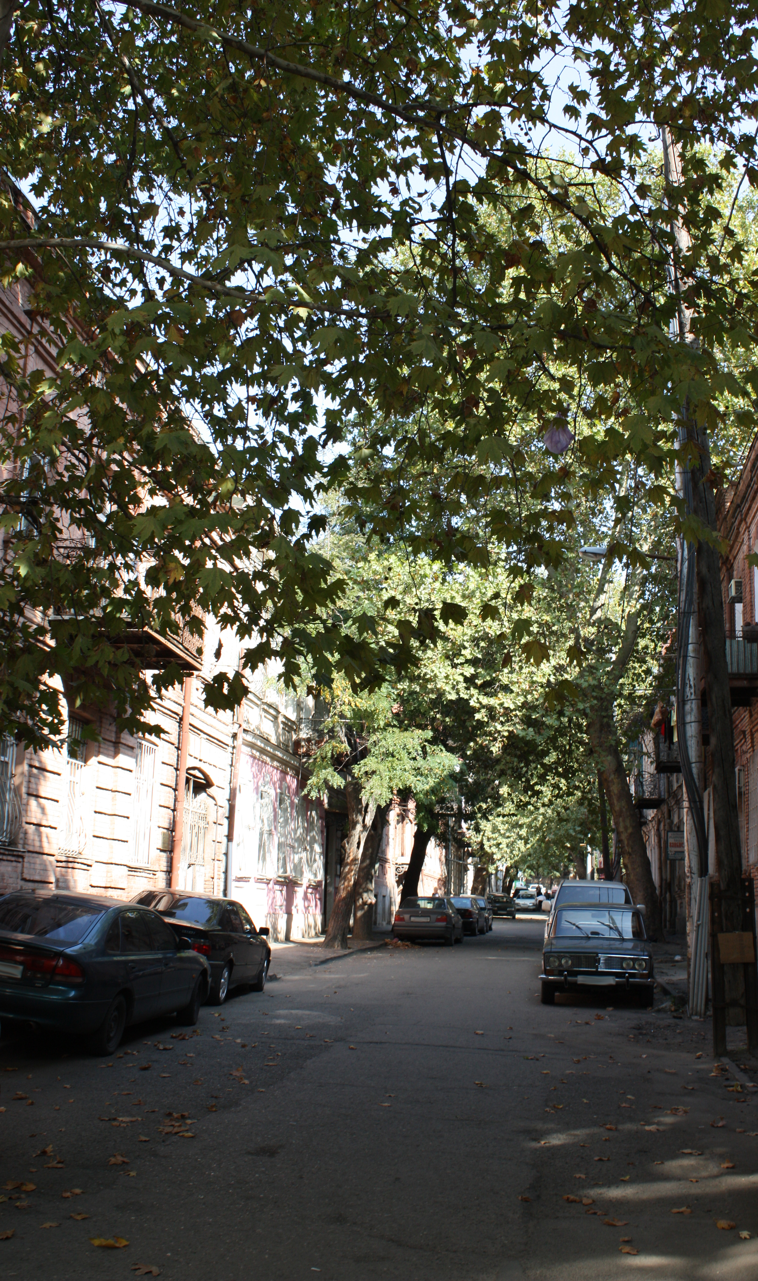 The Baku street in Tbilisi, Georgia